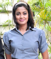 Janvi Chheda at Aamir Khan on the sets of 'CID'